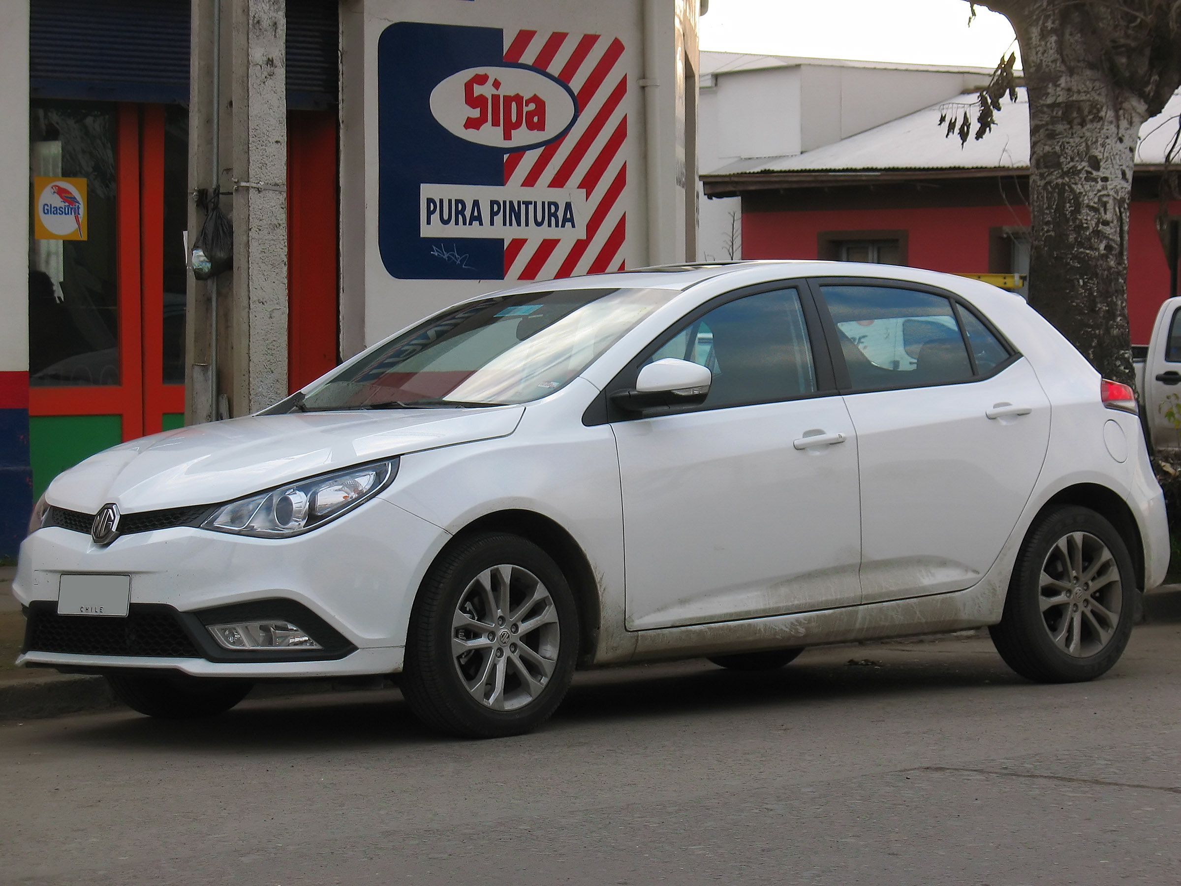 MG 5 1.5 Comfort 2013